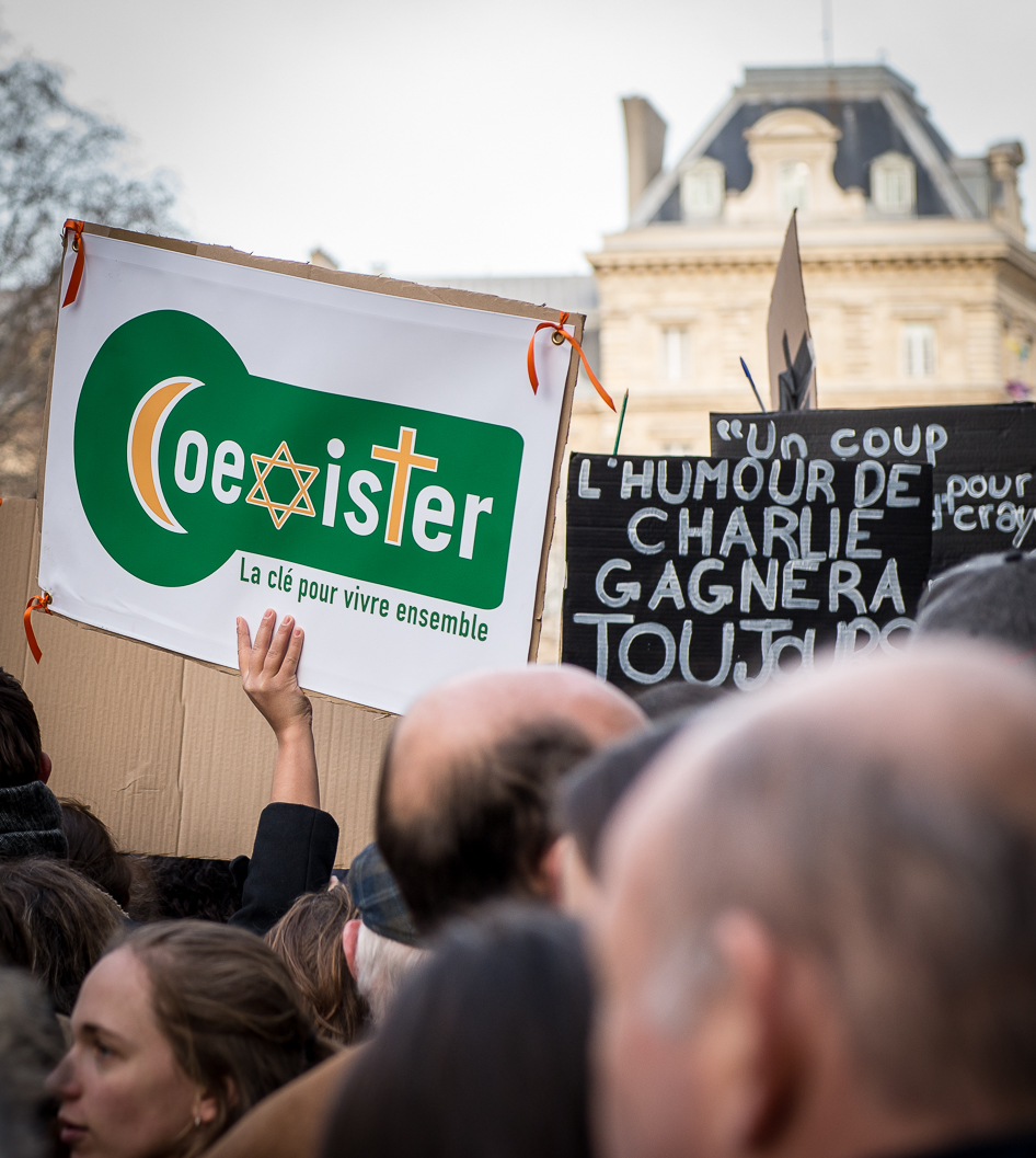 Paris rally in support of the victims of the 2015 Charlie Hebdo shooting, 11 January 2015.